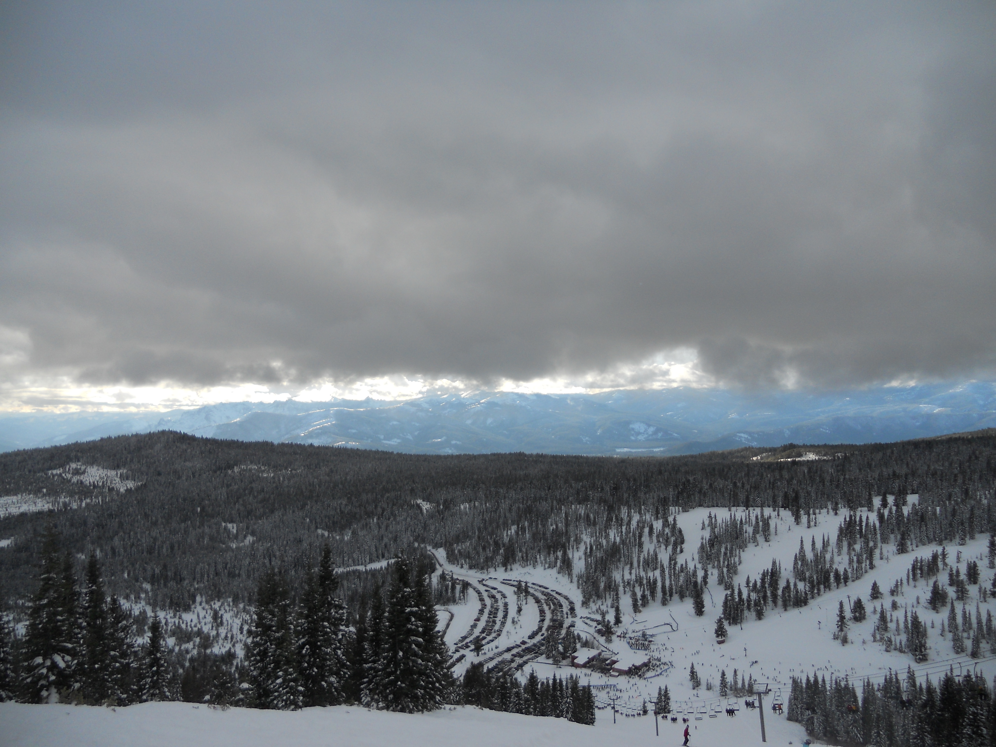 View to the base of Mount Shasta Ski Park on the western face of Mount Shasta in Northern California, United States